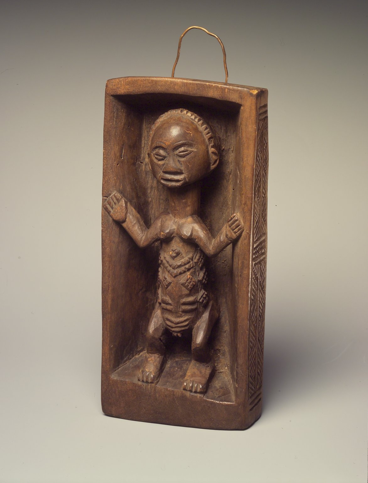 Female figure carved in very high relief within a depression in square piece of soft wood, unstained, with simple motives cut into the back and sides. Figure in wooden frame stands with arms outstretched, elbows bent. Condition: Good.